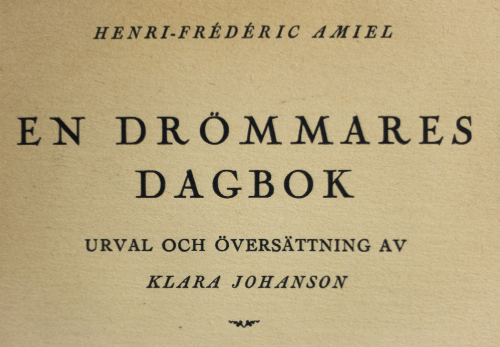 "Private Journal" (Fragments d'un journal intimate) by Henri Frédéric Amiel. Part of the title page in the Swedish edition of 1925.